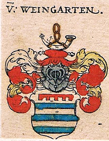 Wappen der Pfälzer Adelsfamilie von Weingarten